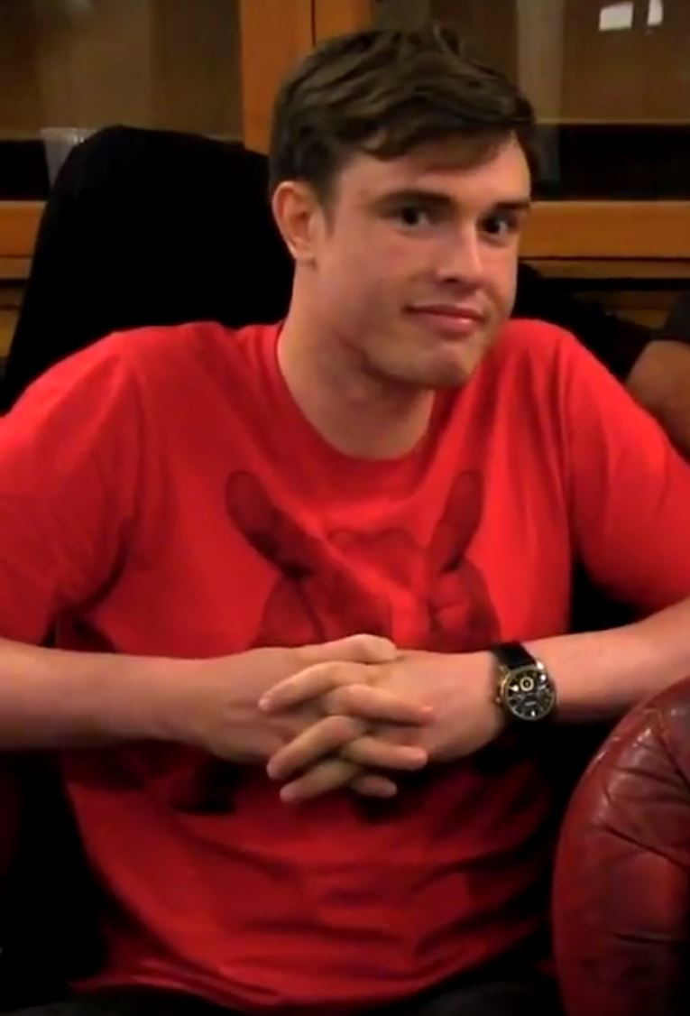 Cropped video still of Ed Gamble, British comedian, in an interview with Waffle TV at Glasgow University Freshers Week 2012